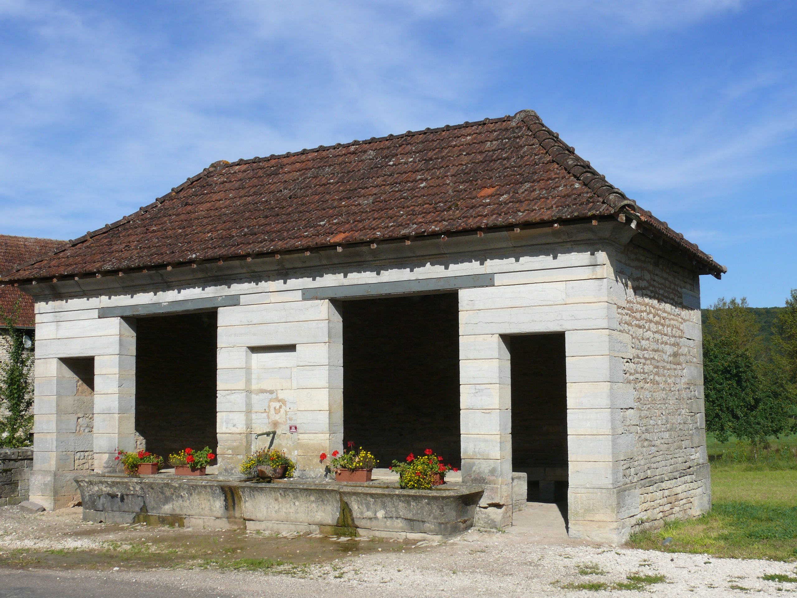 Lavoir of Pennesières (Haute-Saône, France) (1823)